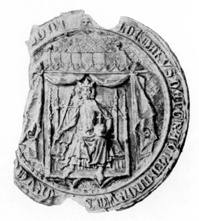 Seal of Danish King Valdemar Atterdag. This seal is known from documents dating 1345-1350.